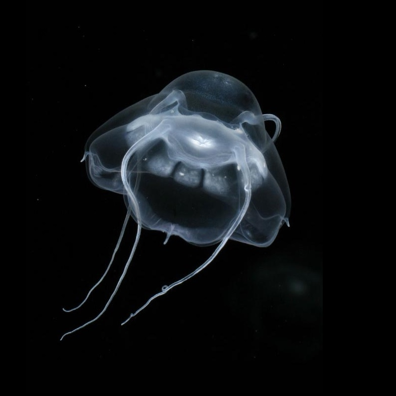 The deep-sea hydrozoan jellyfish Bathykorus bouilloni (Nacromedusae: Aeginidae). It has four tentacles, 12 stomach pouches, and four small secondary tentacles at the very edge of the bell. While foraging for food, this species holds its long tentacles, covered with poison filled stinging cells, out in front while it swims, perhaps to ambush its prey more effectively.